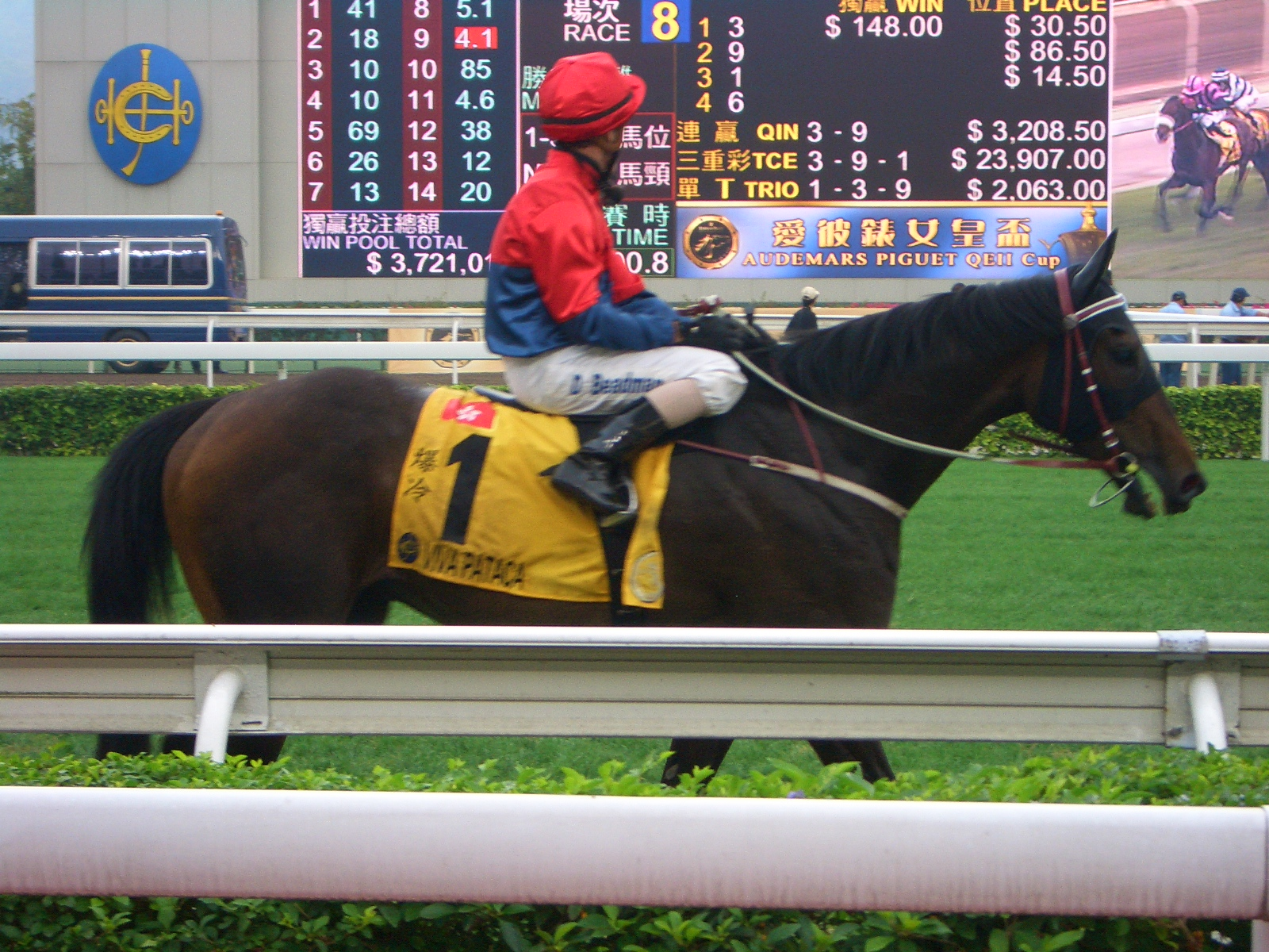 Viva Pataca after finishing QEII Cup